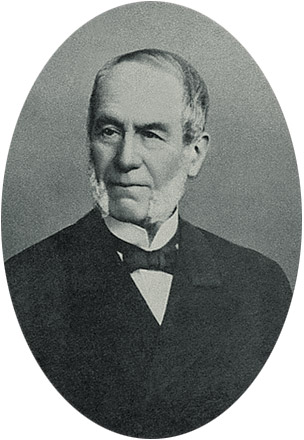 Portrait of Alexander Baron Stieglitz (1814–1884), son of Ludwig Baron Stieglitz, first head of State Bank of the Russian Empire and philanthropist